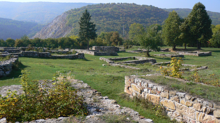 Krakra fortress near the town of Pernik, Bulgaria